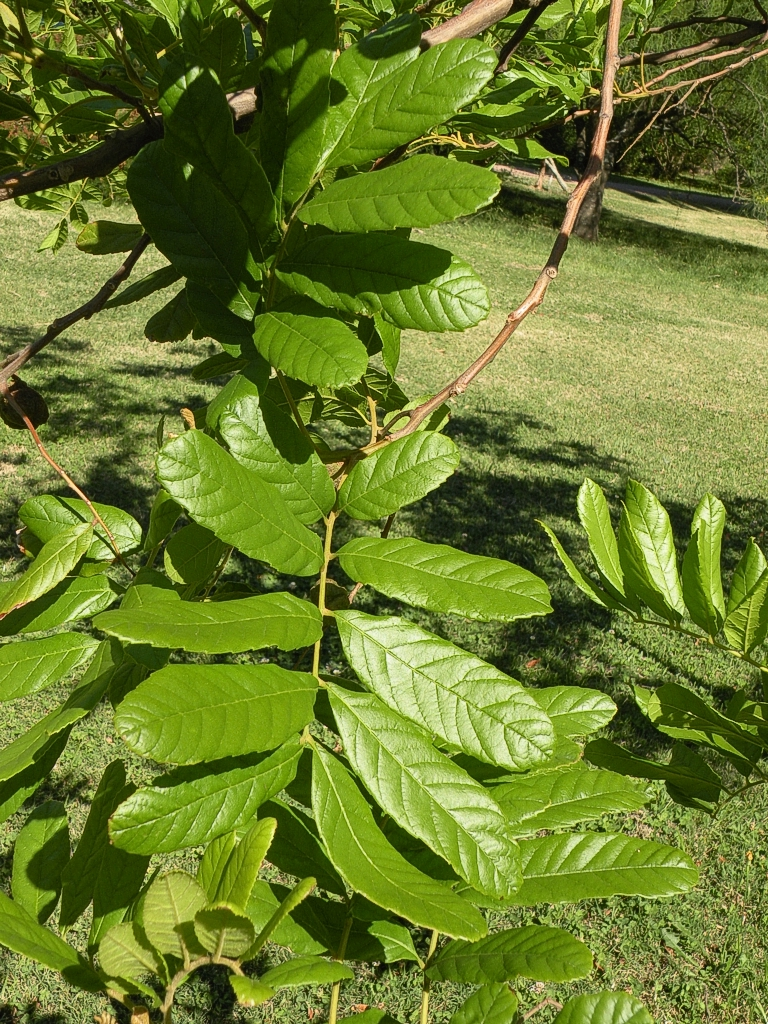 My own contribution to the description of this species. Shot was taken at Arboretum de Montevideo, Montevideo, Uruguay